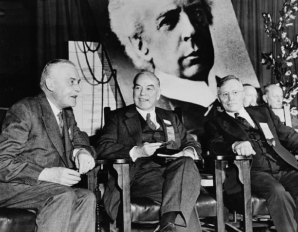 Hon. Louis St. Laurent, Rt. Hon. W.L. Mackenzie King and Hon. J.G. Gardiner at the National Liberal Convention